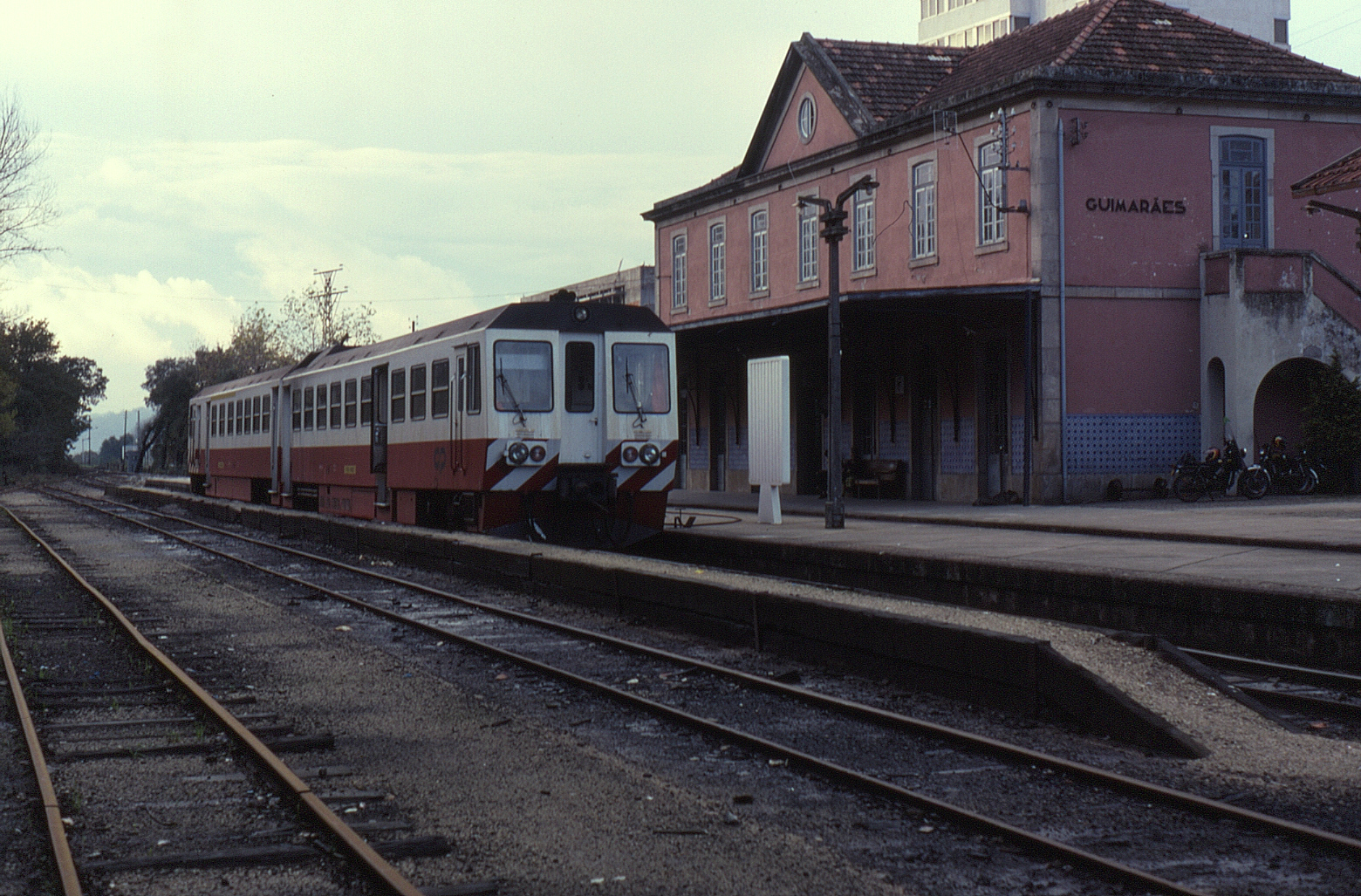 Narrow gauge railcars seen on 26 November 1990. 9622 at Guimarães having arrived on the 13:37 from Porto Trindade.